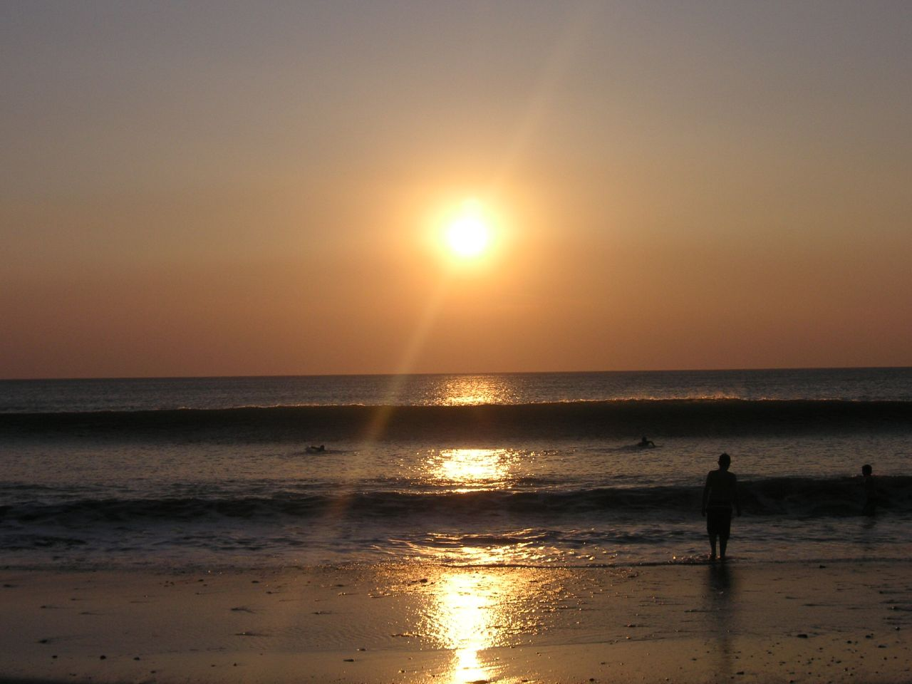 Jamsta 18:44, 26 April 2007 (UTC)